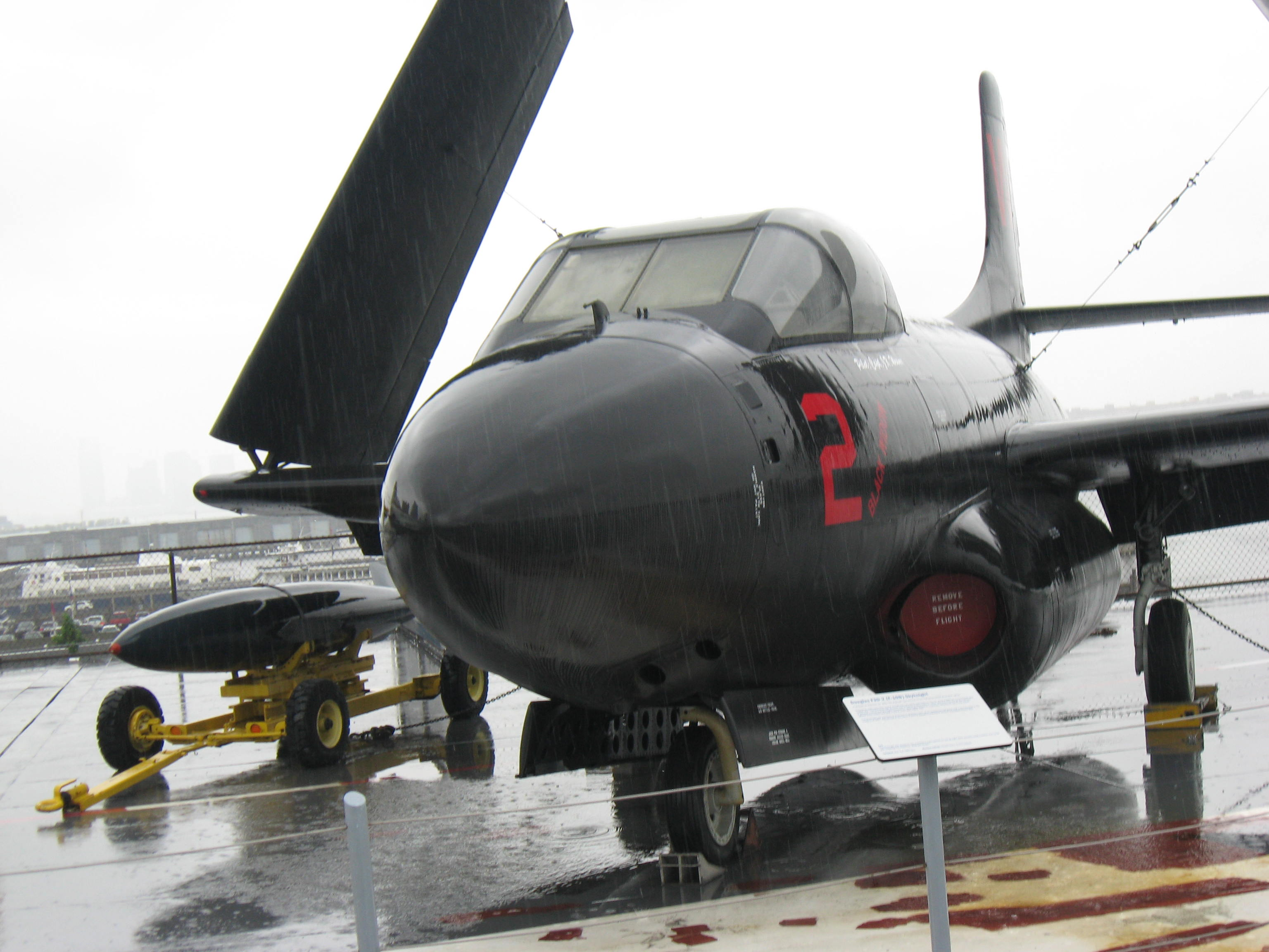 "Douglas F3D Skyknight Black Widow" at Intrepid Sea, Air & Space Museum in New York City (2011) - The Black Widow was one of the three planes that were removed in 2012 to make room for the Space Shuttle Enterprise, a new addition to the Intrepid Museum; the three planes, including the Black Widow, were moved to the Empire State Aerosciences Museum in Glenville[2]